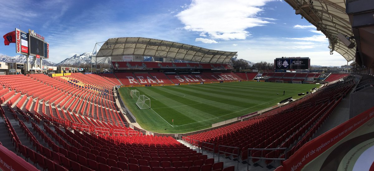 Rio Tinto Stadium March 4th 2017